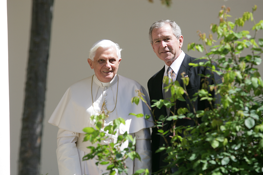 President George W. Bush and Pope Benedict XVI pause along the White House Colonnade to look at the Rose Garden on their way for a meeting in the Oval Office Wednesday, April 16, 2008, following the Pope's welcoming ceremony on the South Lawn of the White House. Photo by Chris Greenberg, Courtesy of the George W. Bush Presidential Library and Museum